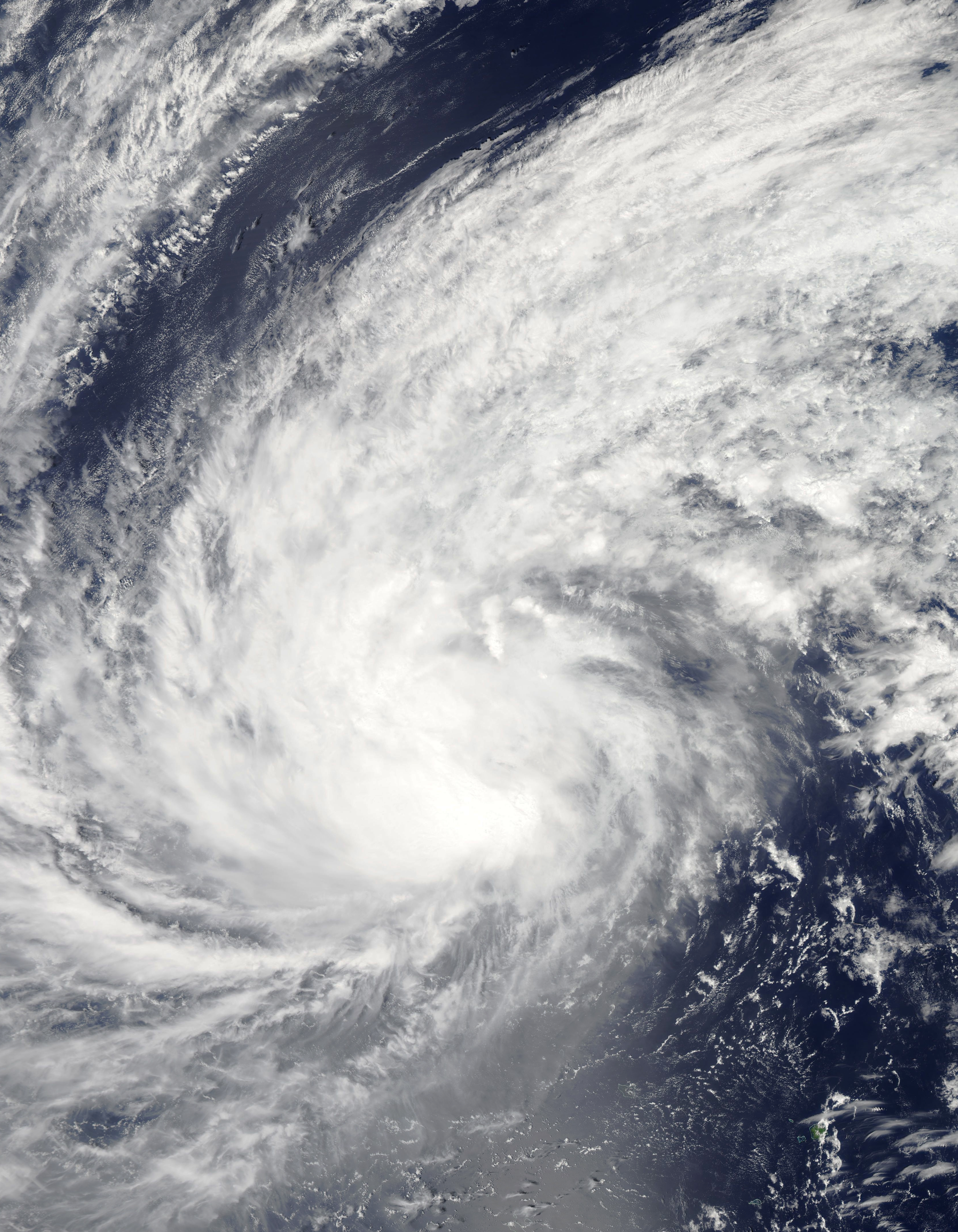 Tropical Storm Bavi intensifying on March 14, 2015